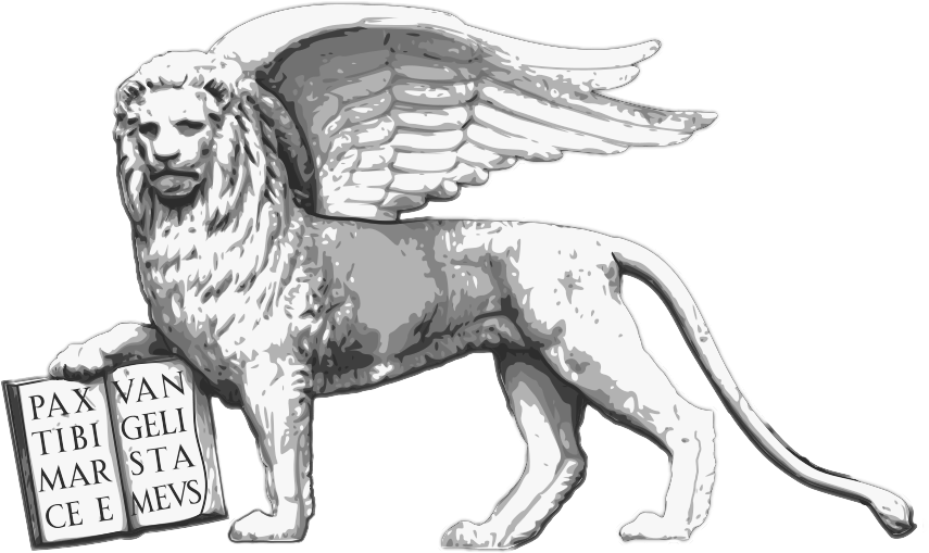 Winged lion of Saint Mark